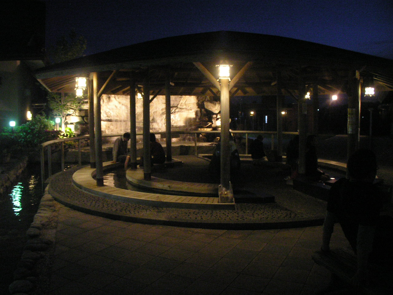 Yokawa-onsen-ashiyu